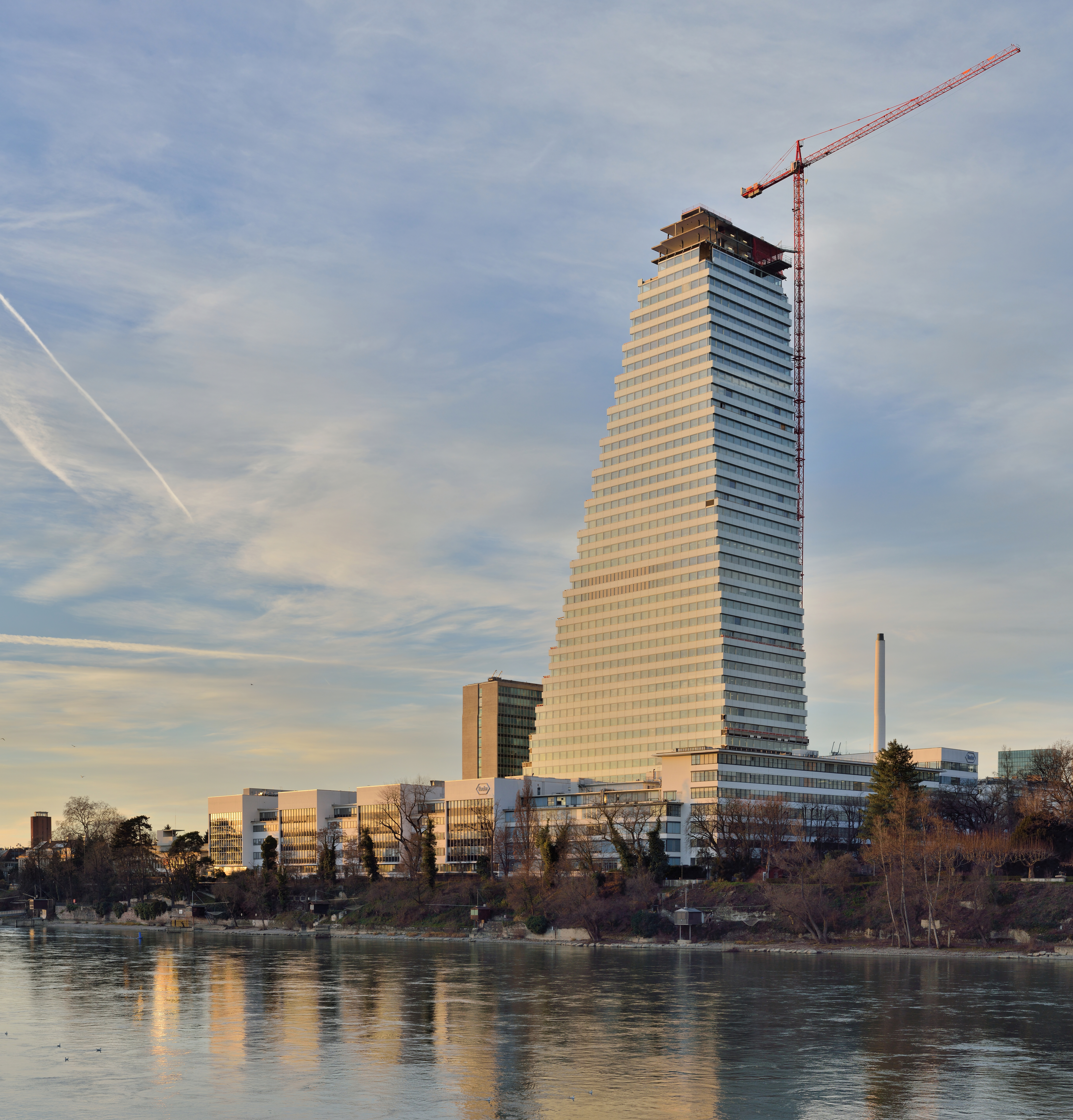 Roche Tower during construction on 22nd december 2014